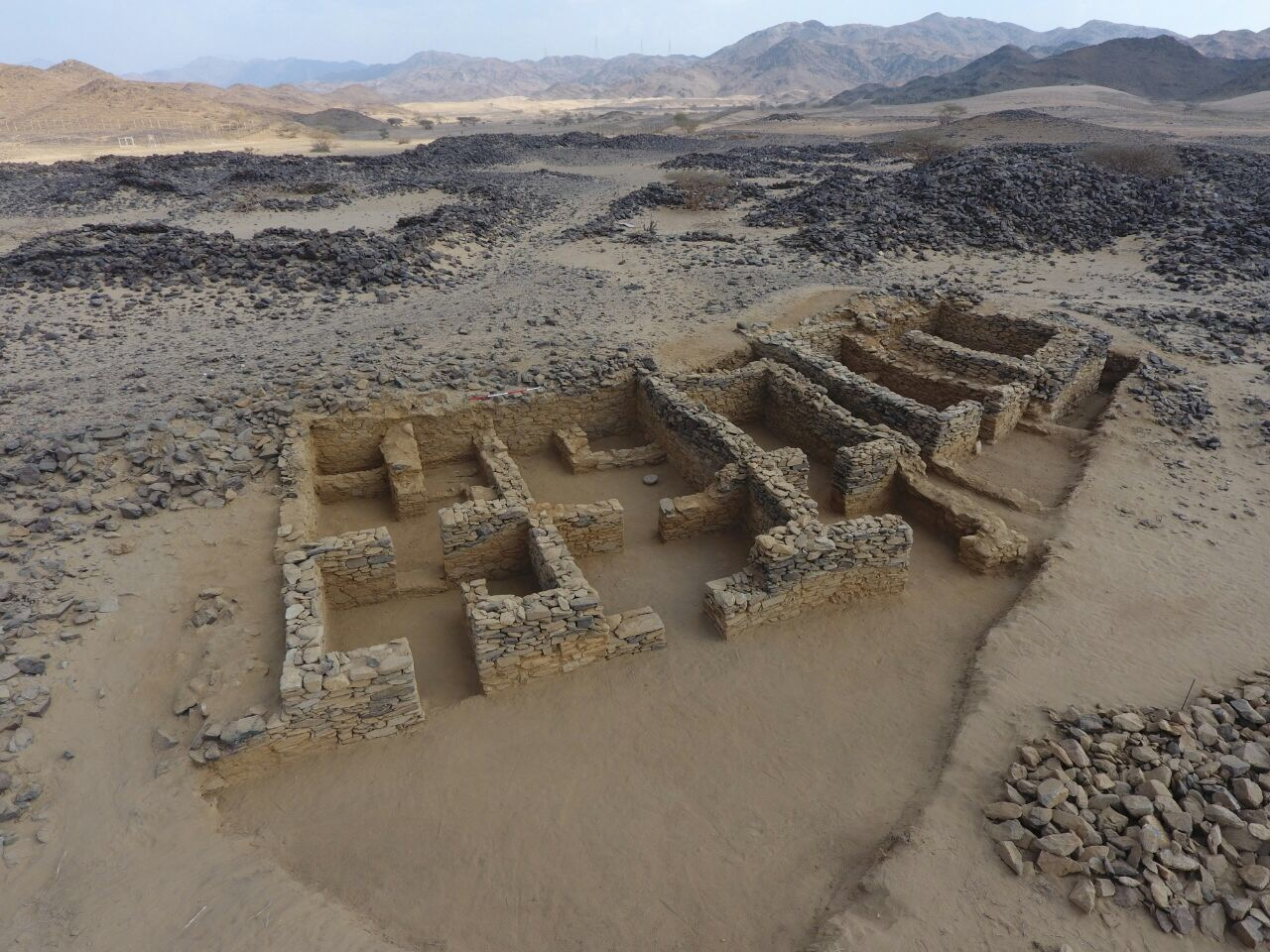 لعثور علىد إلى الفترة الاسلامية المبكرة والوسيطة.